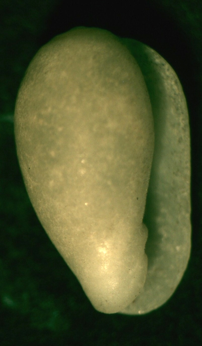 Gibberula secreta, Monterosato, 1889, a sea snail from the family Cystiscidae